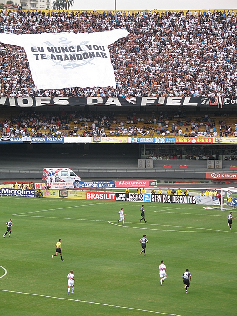 match of Paulista Championship of 2008 between São Paulo and Corinthians in Cícero Pompeu de Toledo stadium, known as Morumbi. One of the most important brazilian derbies. The game ended 0 to 0. View of the Corinthians supporters.